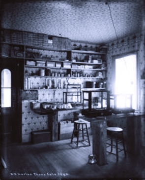 Andrew James Harlan, Assaying office in Colorado Springs, 1902-1915 copy